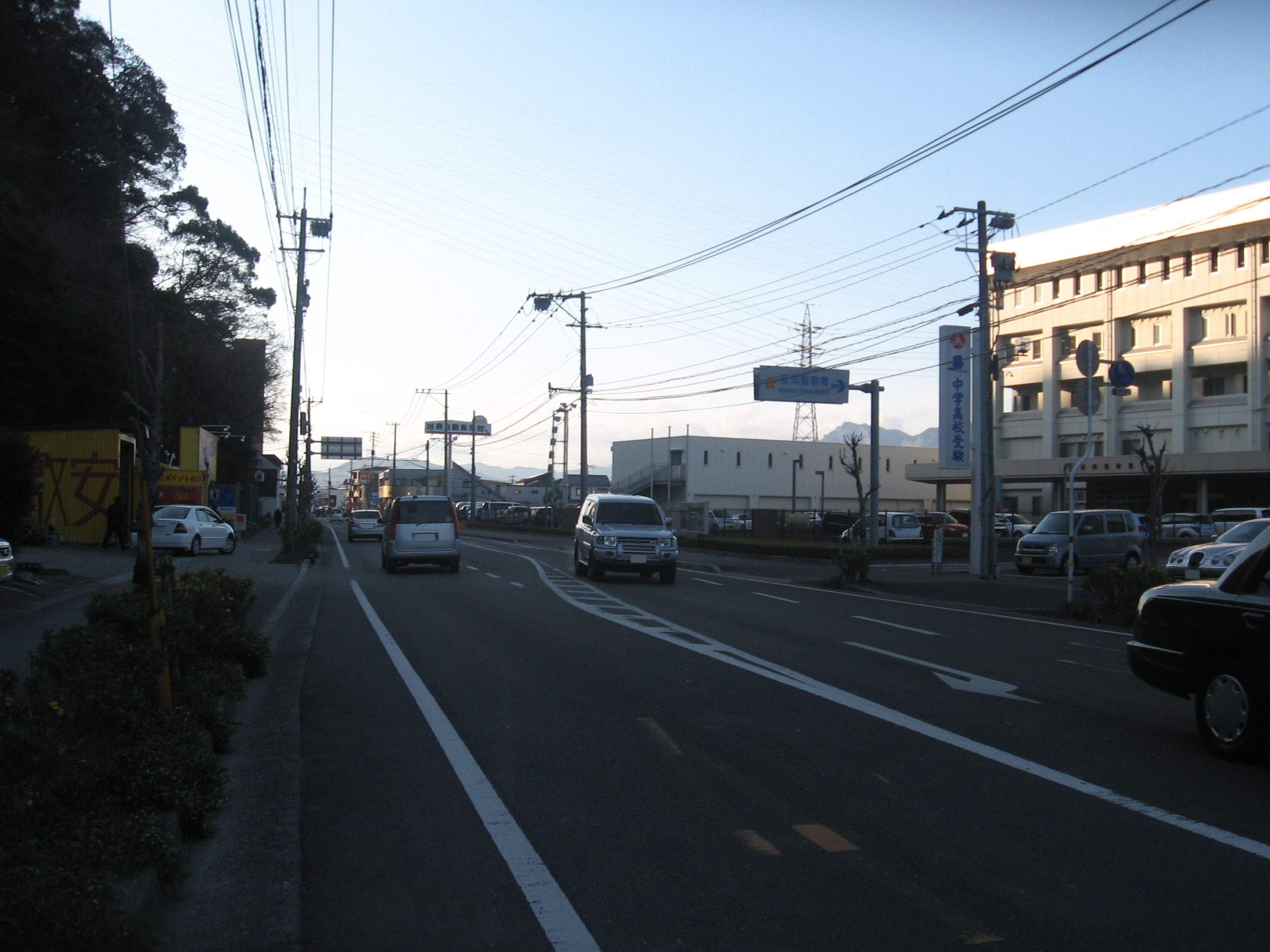 Miyazaki Prefectural Road No.16 Inabazaki-Hirabaru Line (Branch Line) = Atago-Dori Line (Atago-machi 3-chome, Nobeoka City, Miyazaki Prefecture, Japan)